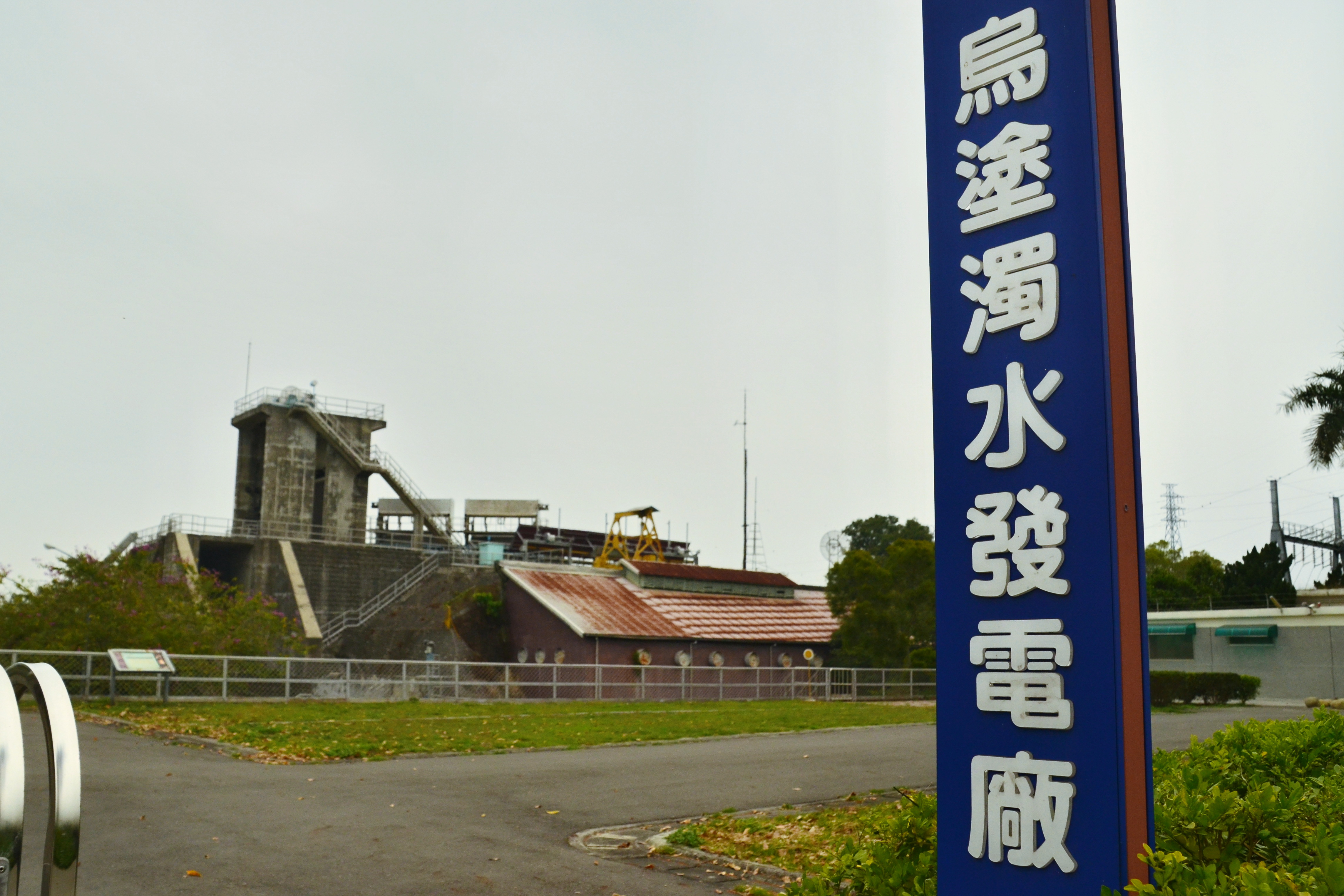 Wutu Power Plant, Linnei, Yunlin, Taiwan. (Historical monument of Yunlin County)